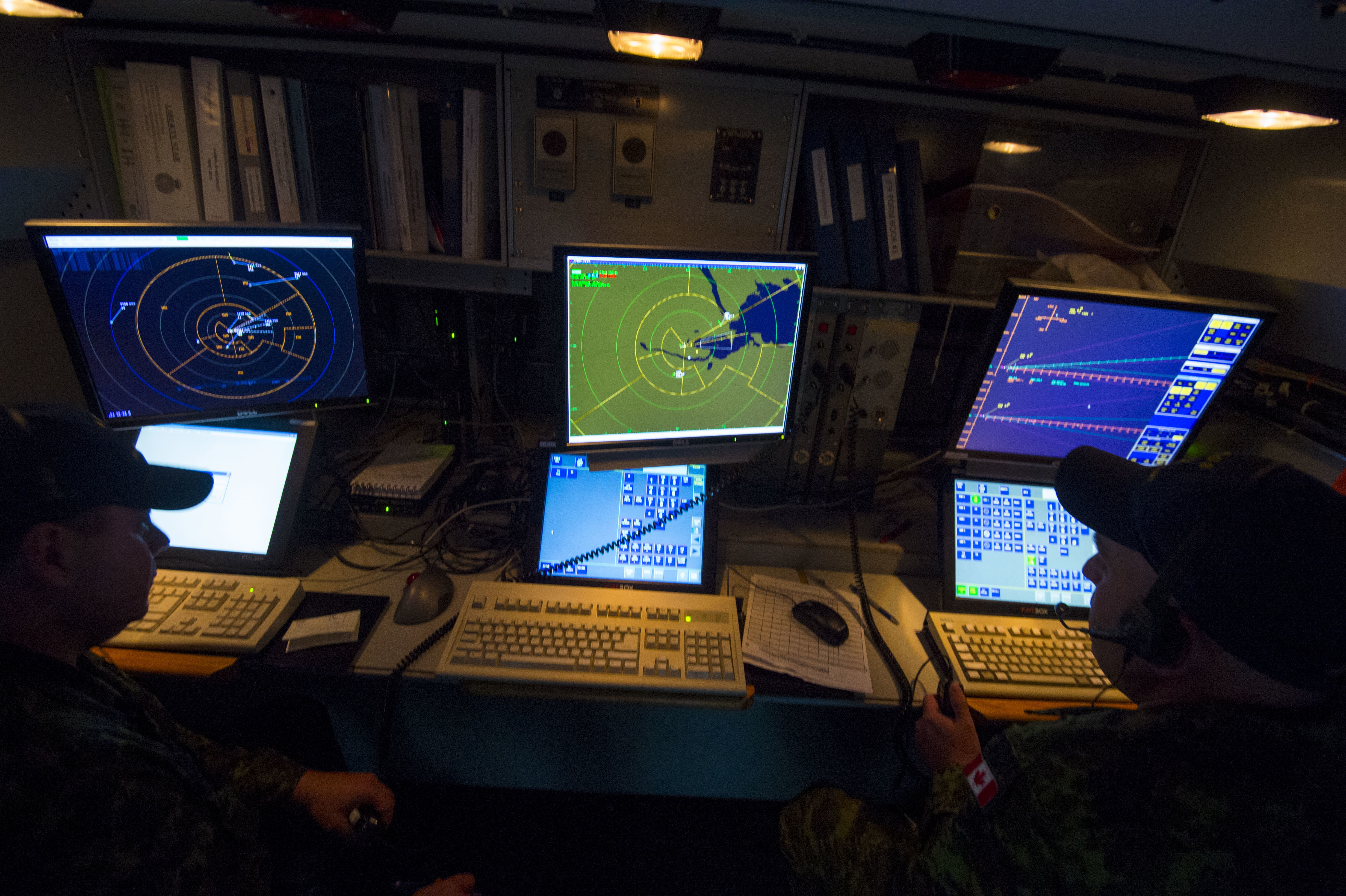 Royal Canadian Air Force Sgt. Tex Young and Master Cpl. Doug James, both air traffic controllers with the 8 Air Communications and Control Squadron, direct aircraft during Vigilant Shield 15 at Royal Canadian Air Force 5 Wing at Canadian Forces Base Goose Bay, Newfoundland and Labrador province, Canada, Oct. 21, 2014. Vigilant Shield is a weeklong annual exercise designed to emphasize an integrated Department of Defense and civil response in support of the national strategy of aerospace warning and control, defense support of civil authorities and homeland defense.